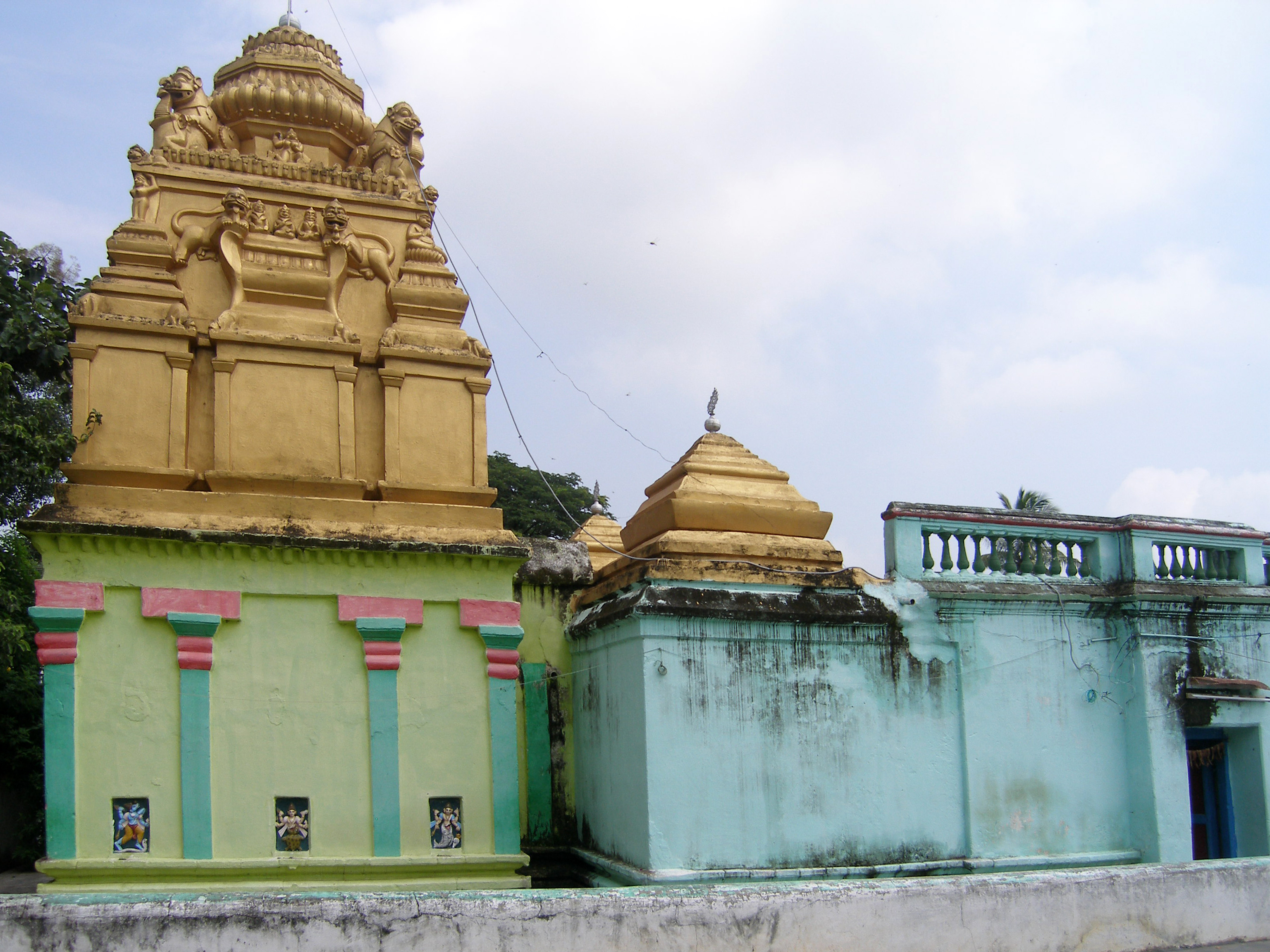 This is photograph of Venkateswara temple at Balijipeta in Vizianagaram district taken by me.Rajasekhar1961 (talk) 07:07, 21 October 2013 (UTC)